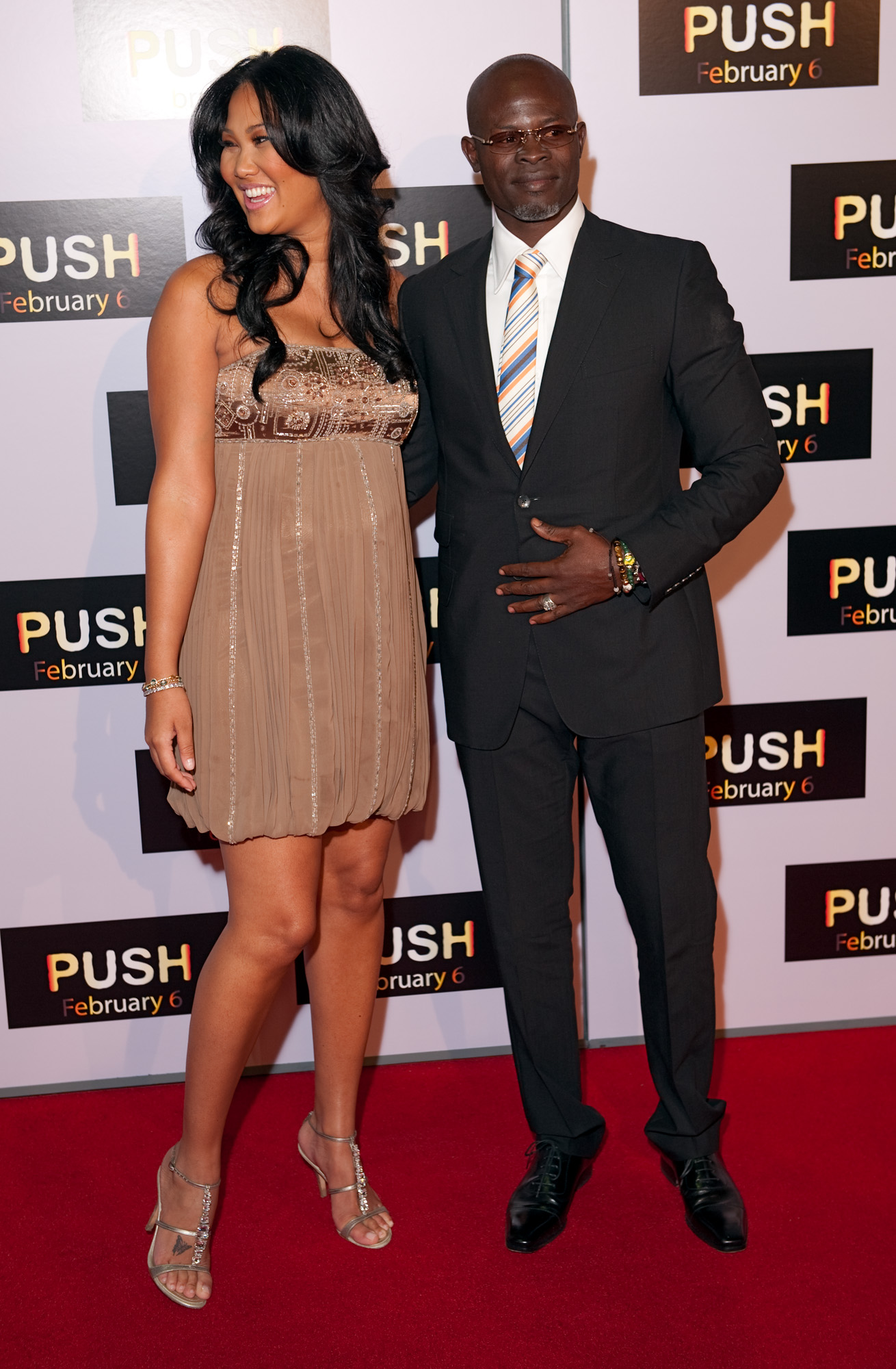 Beninese actor Djimon Hounsou and American fashion model Kimora Lee Simmons arrive at the premiere of Push, Mann Theater, Westwood.